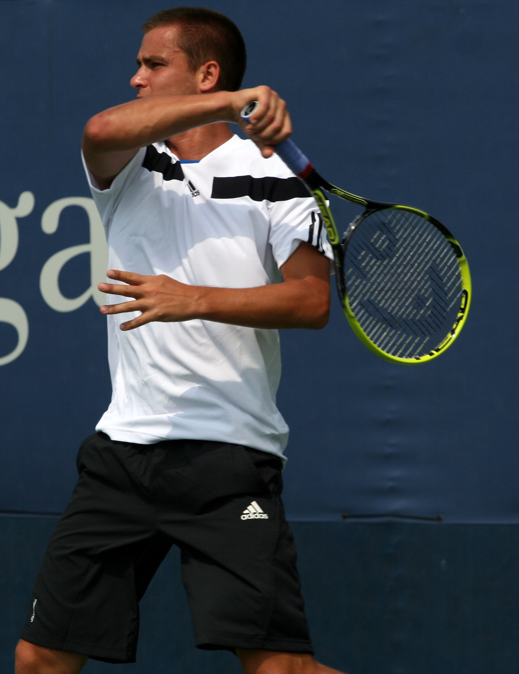 Wednesday, August 28